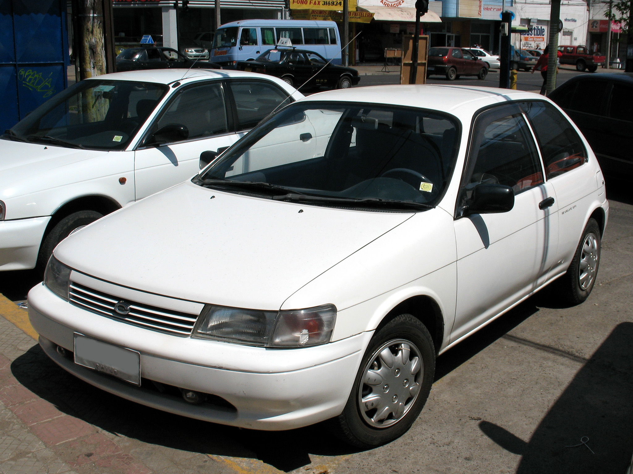 Also called Toyota Corsa